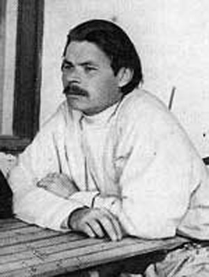 Maxim Gorky